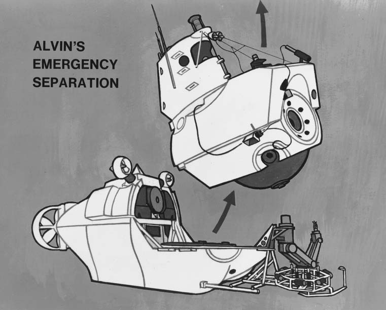 Alvin emergency release mechanism